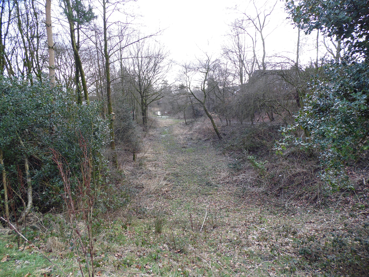 The site of the station as of March 2018, as can be seen the entire area is completely overgrown, if it was for the information sign at the top entrance, there would be no way anybody could tell that there had ever been anything there, let alone a railway station.